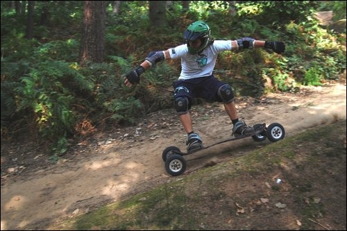 A mountainboard.